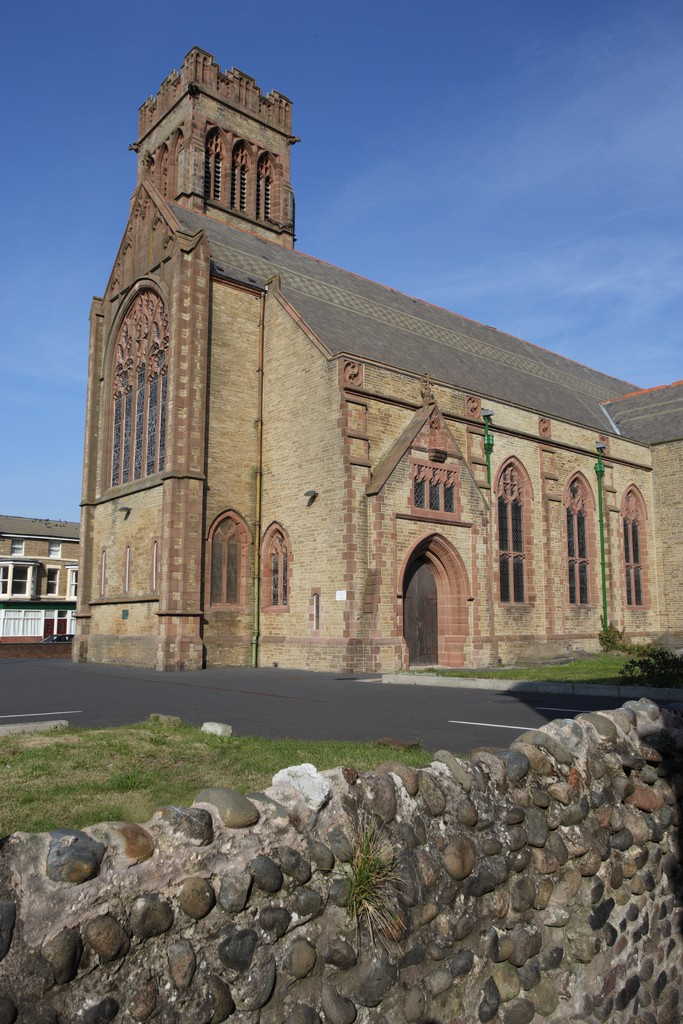 Holy Trinity Church Blackpool, viewed from the South West corner. Image taken on the 28th September 2013